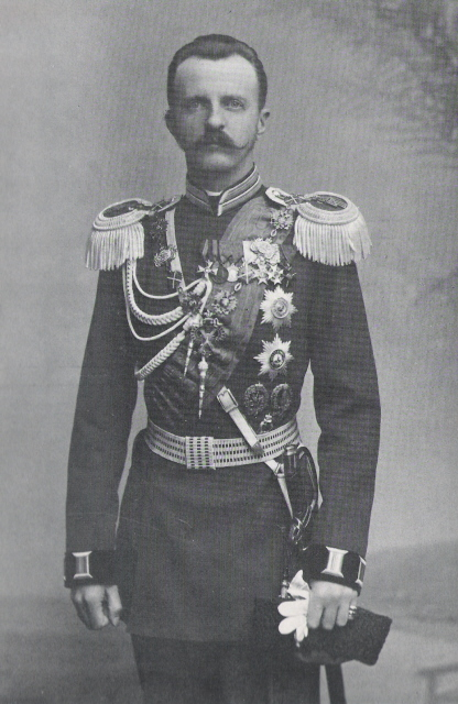 Grand Duke Pyotr Nikolaevich of Russia